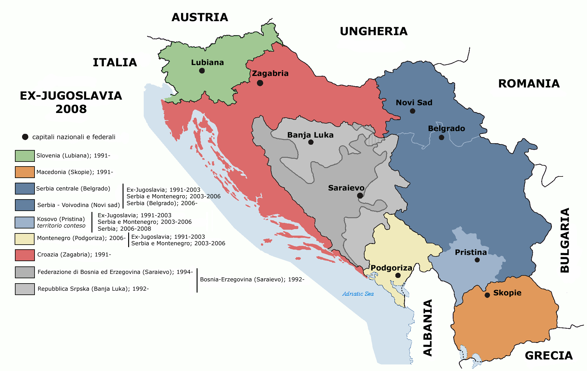 Political map of states of Former Yugoslavia.